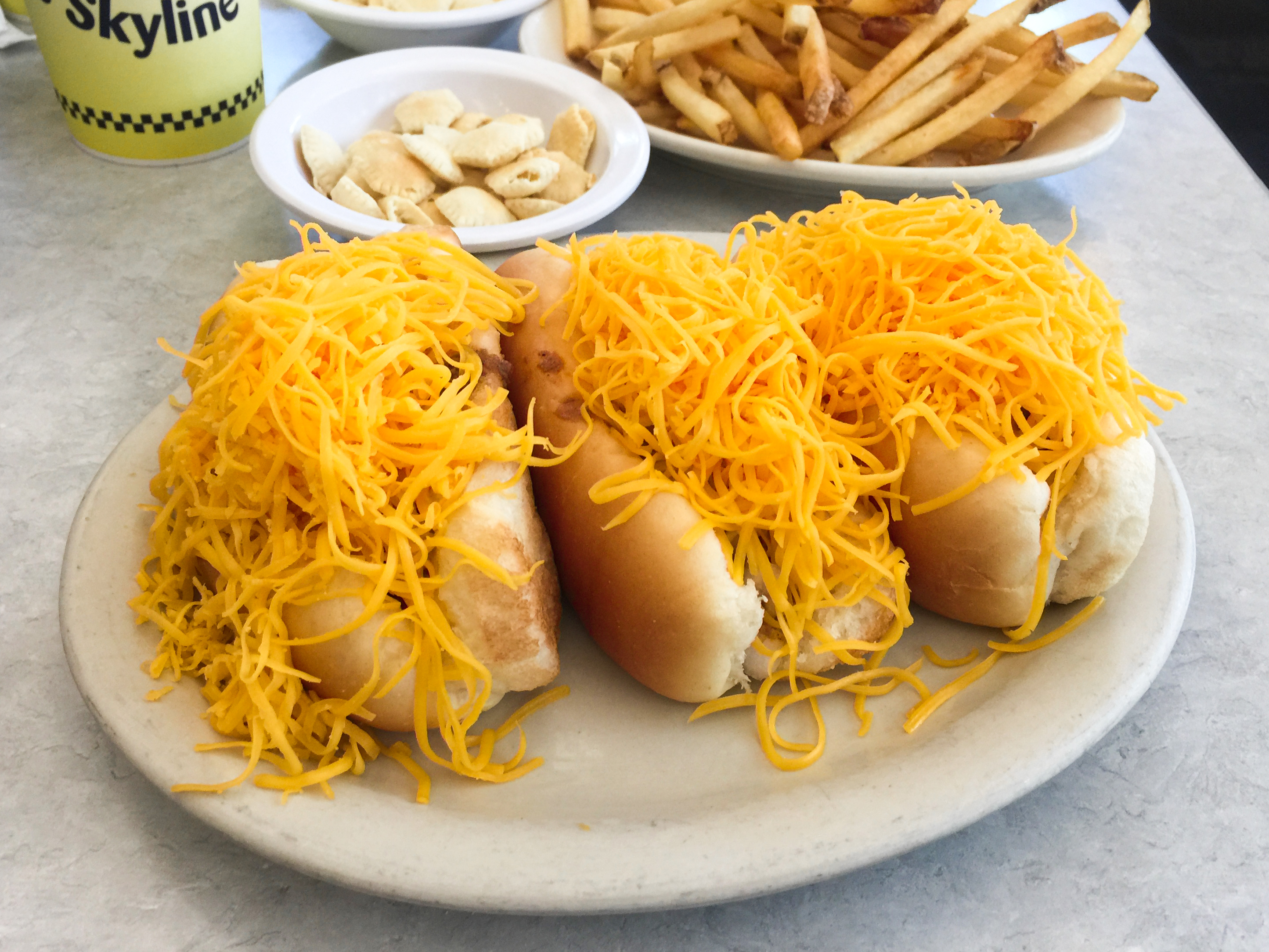 Three cheese Coneys from Skyline Chili. Contains chili, finely shredded mild cheddar cheese, chopped onions, mustard and oyster crackers.